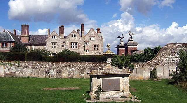 Glynde Place from the Churchyard